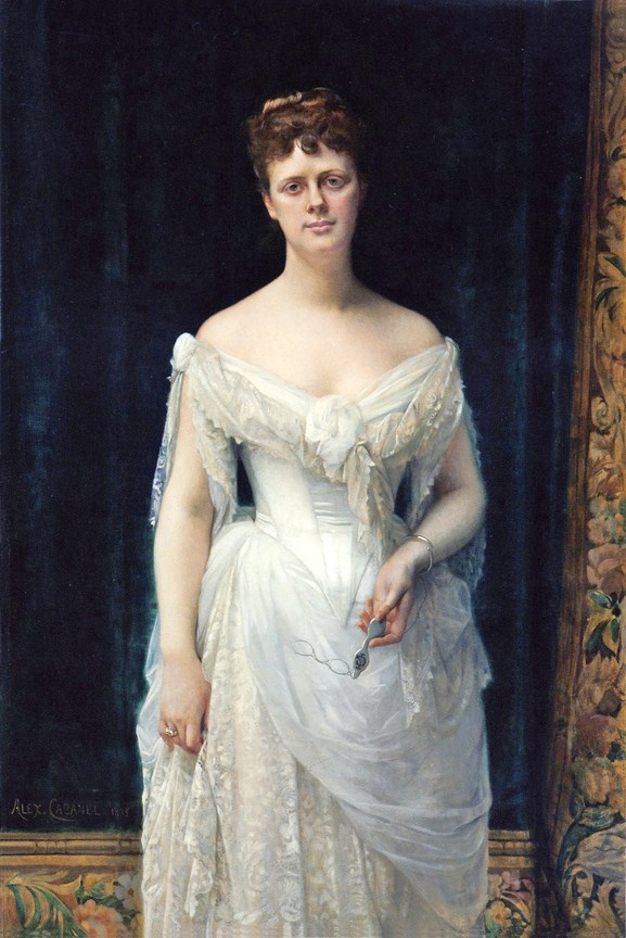 woman in summer